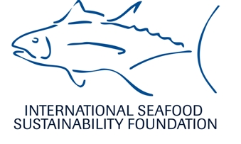 Logo for ISSF